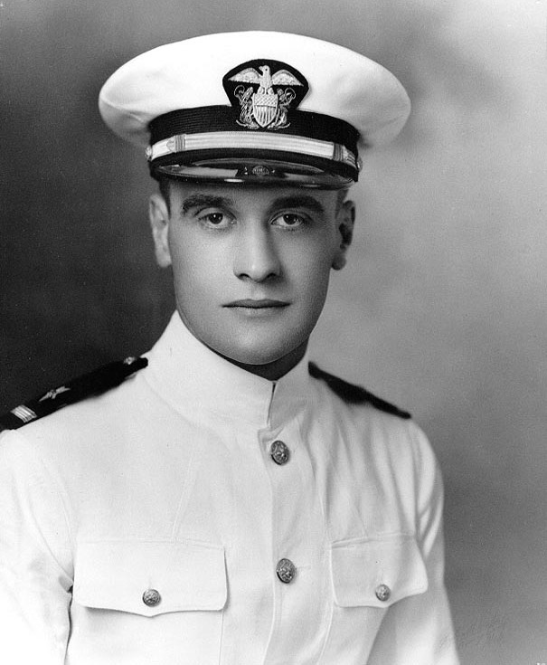 Robert William Uhlmann (16 August 1919 – 7 December 1941) was an ensign of the United States Navy who was killed during the Japanese air attack on Naval Air Station Kaneohe Bay, Oahu, Hawaii.